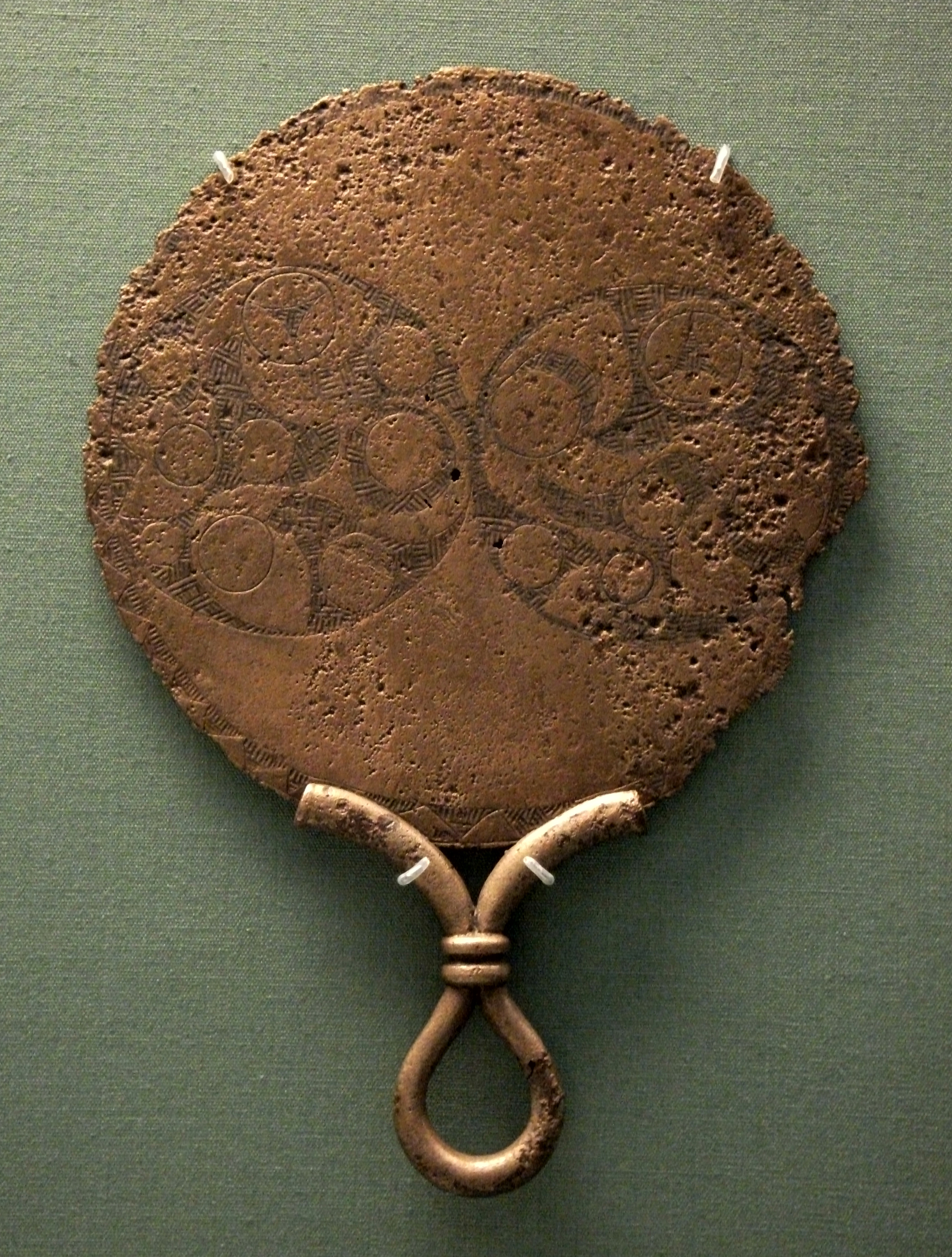 bronze Iron Age mirror, British Museum